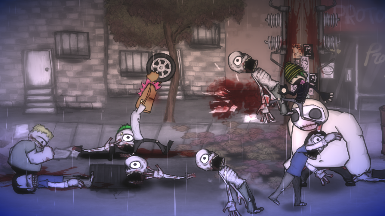 Screenshot from the video game Charlie Murder